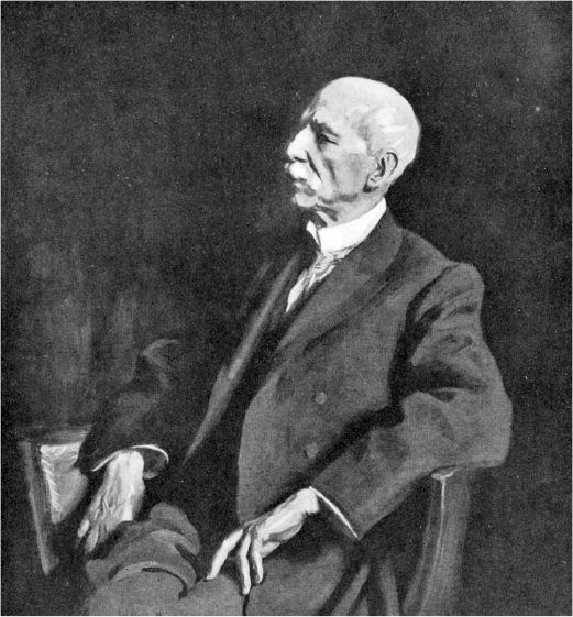 Manuel García by John Singer Sargent.